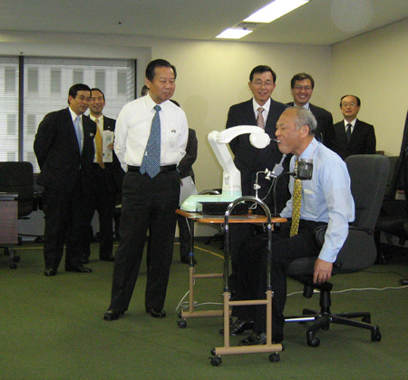 Yōichi Masuzoe, Minister of Health, Labour and Welfare, and Toshihiro Nikai, Minister of Economy, Trade and Industry, demonstrated the robot at the Central Government Building No.5 in Chiyoda Ward, Tōkyō Metropolis on November 10, 2008. (For terms of use, see 利用規約｜厚生労働省.)